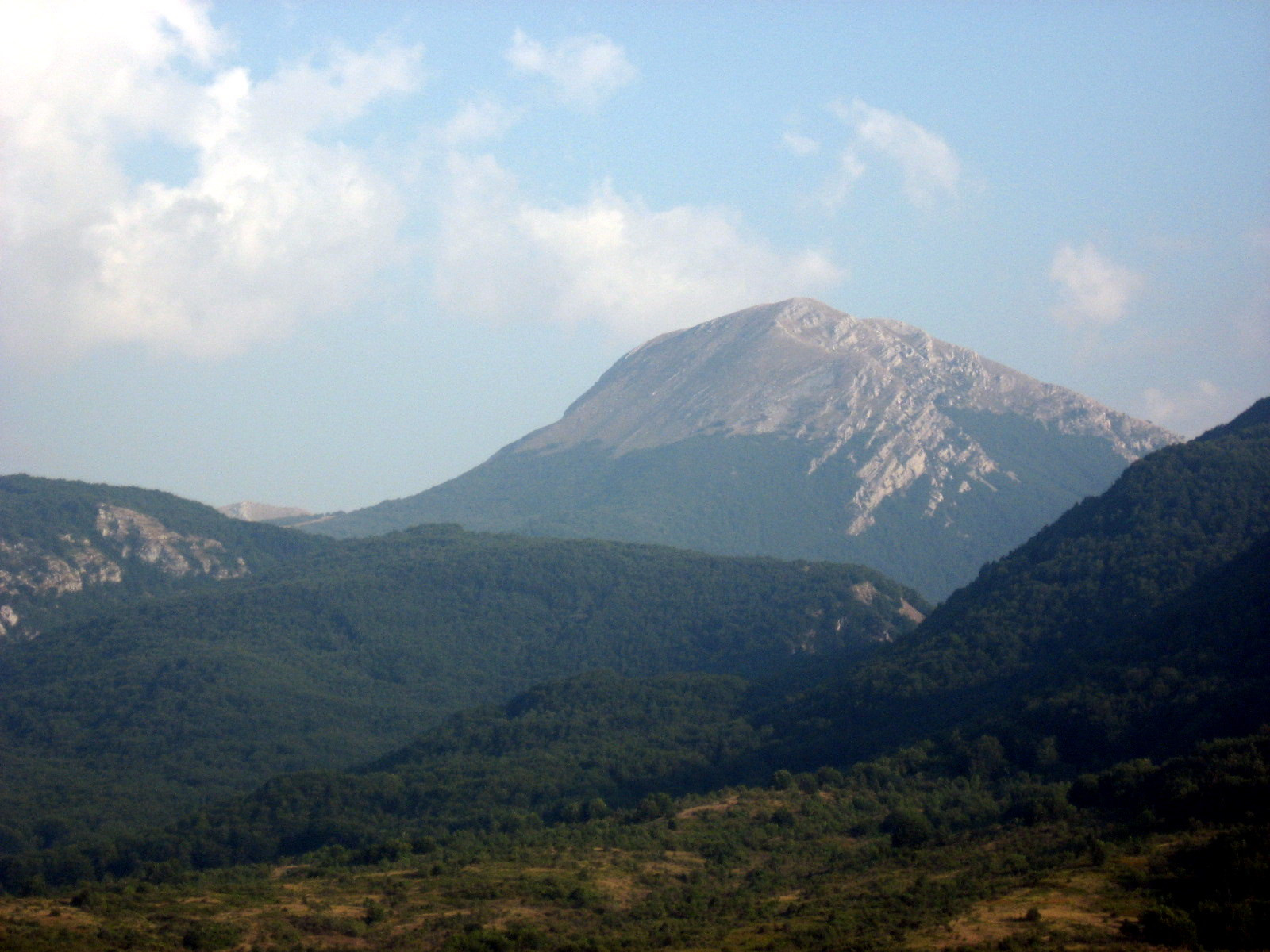 Mont Pollino. Along the suggestive road to Piano Ruggio.